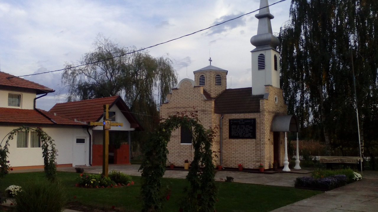 Pogled na manastir